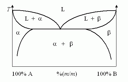 Image eutecticum (Binary phase diagram)